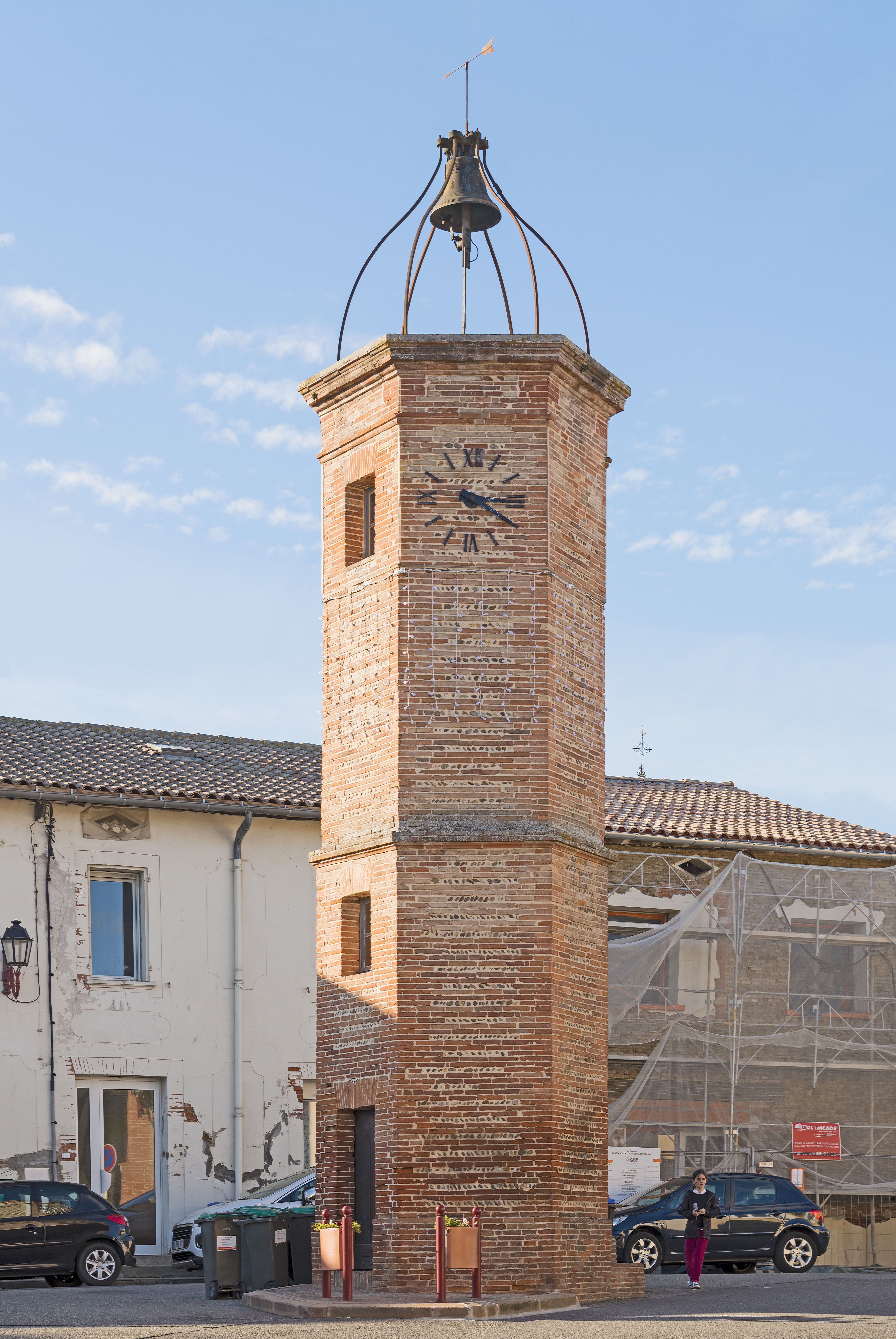 The clock tower of Mondonville, Haute-Garonne France - 1852